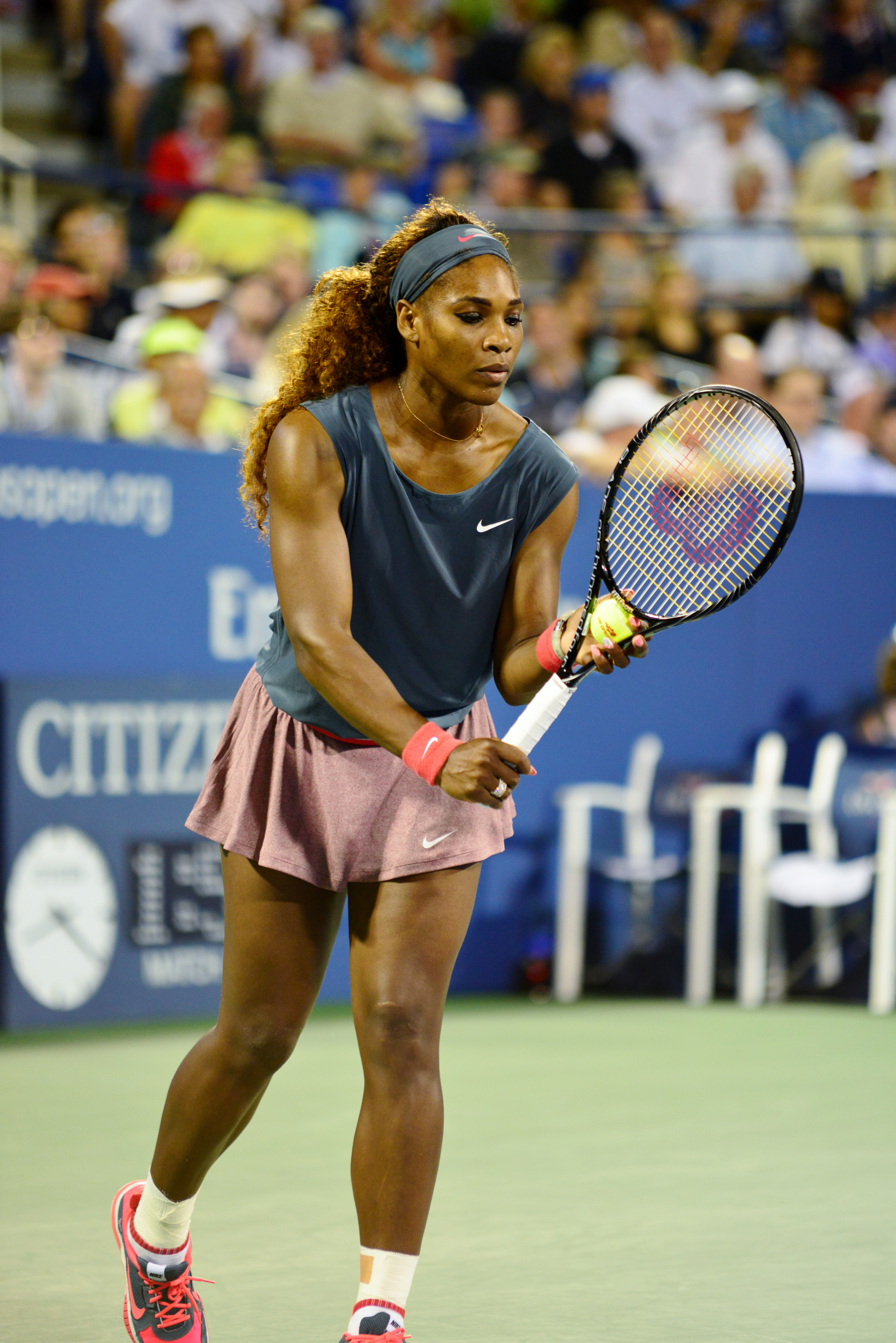 1st round doubles action from the Women's draw at the 2013 US Open. Serena and Venus Williams defeated Silvia Soler-Espinosa and Carla Suarez Navarro; 6-7(5), 6-0, 6-3